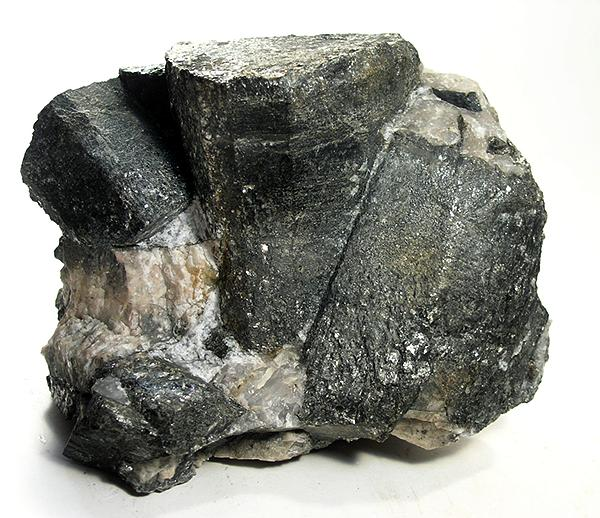 Pinite Locality: Västerby, Askersund, Närke, Sweden (Locality at ) Pinite is not a valid species but is rather a mixture of other rockforming species that replace certain silicate minerals, such as cordierite in particular. This is, I am told, a really really good and not-as-ugly-as-usual specimen of incredibly large cordierite crystals replaced by this mix of mica and other minerals, Neat old label, too! 15 x 10.6 x 9.3 cm